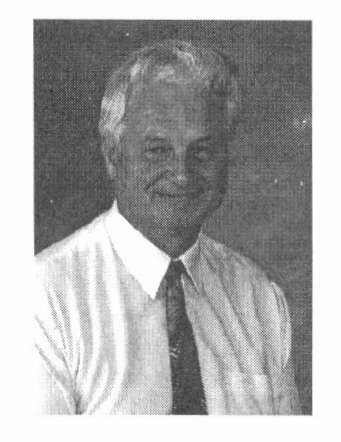 László Blazovich historian